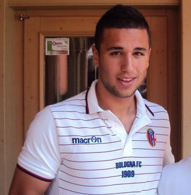 stoja